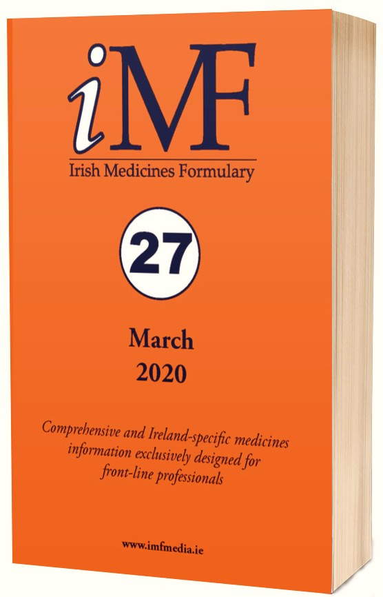 Front cover of IMF 27 March 2020